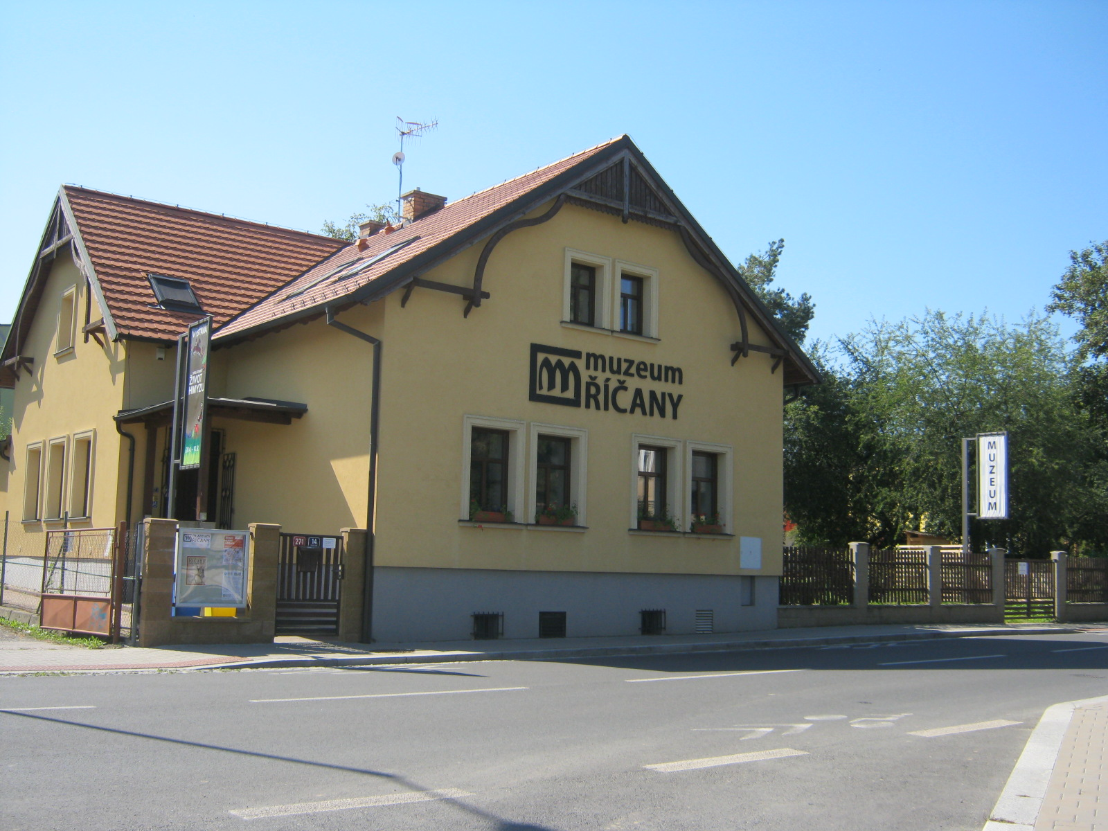 Říčany muzeum